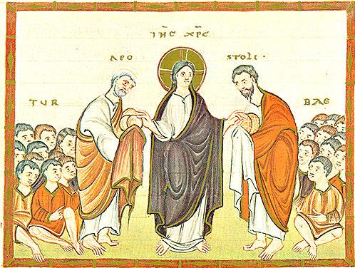 Feeding the multitude